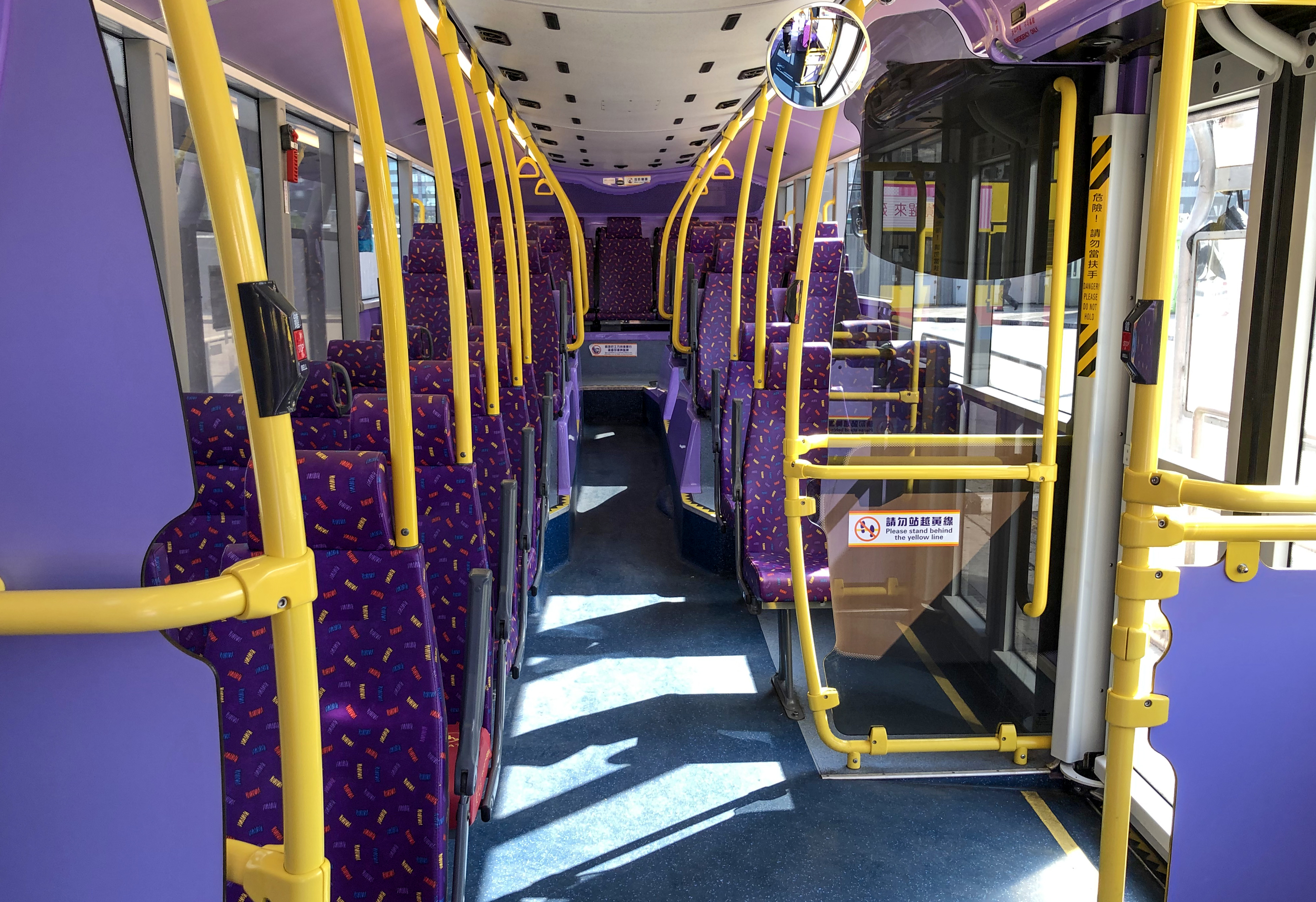 Taken upon boarding at Wan Chai North. No luggage racks on urban E500MMCs - this means more seats can be available on this 12.8m fellow.